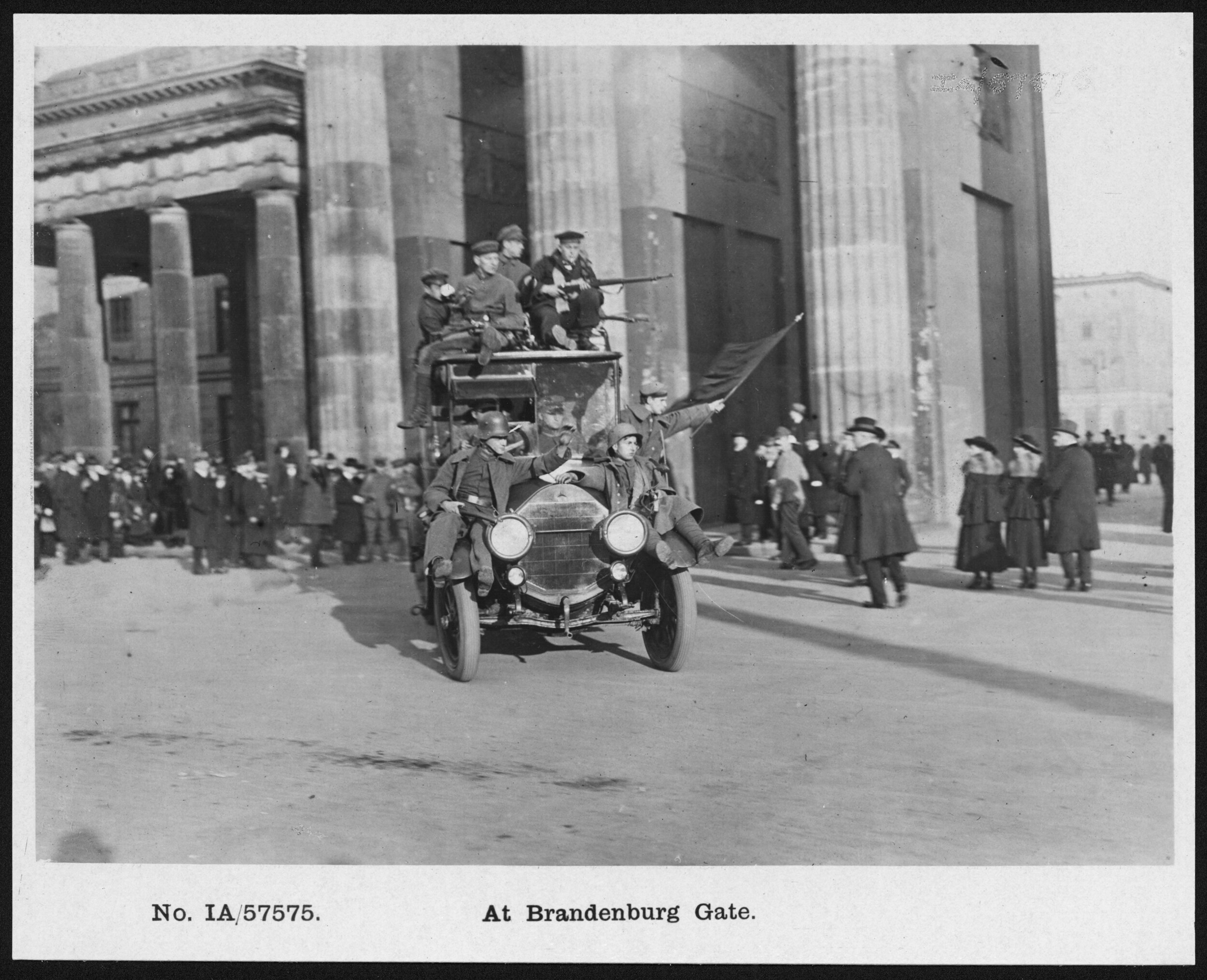 People standing around the Brandenburg Gate in Berlin, watching a car full of soldiers. The soldiers are even sitting on the roof and bumpers of the car, waving their weapons and a flag. It is probable that this was taken on or very soon after the declaration of the German Republic on 9 November 1918. When it was originally built in 1791, the Brandenburg gate was intended to symbolise peace. During the Communist period from 1961 to 1989, the Gate was part of the wall between East and West Berlin. When it was re-opened on 22 December 1989, it became a symbol of the reunification of Germany. [Original reads: 'No. IA/57575. At Brandenburg Gate.']